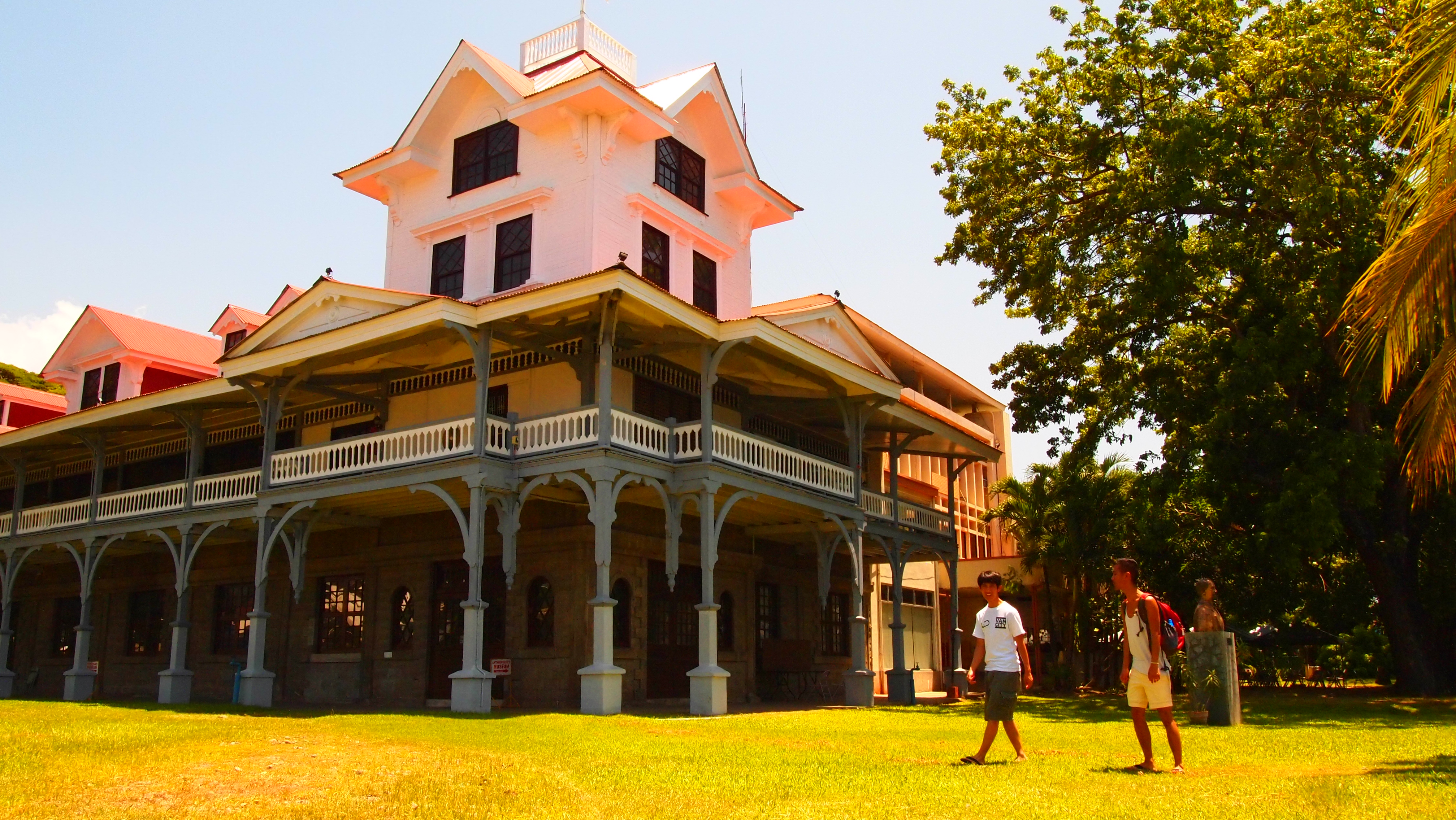 Silliman University was established as Silliman Institute by Protestant missionaries in 1901. Silliman Hall stands as a monument of that heritage.